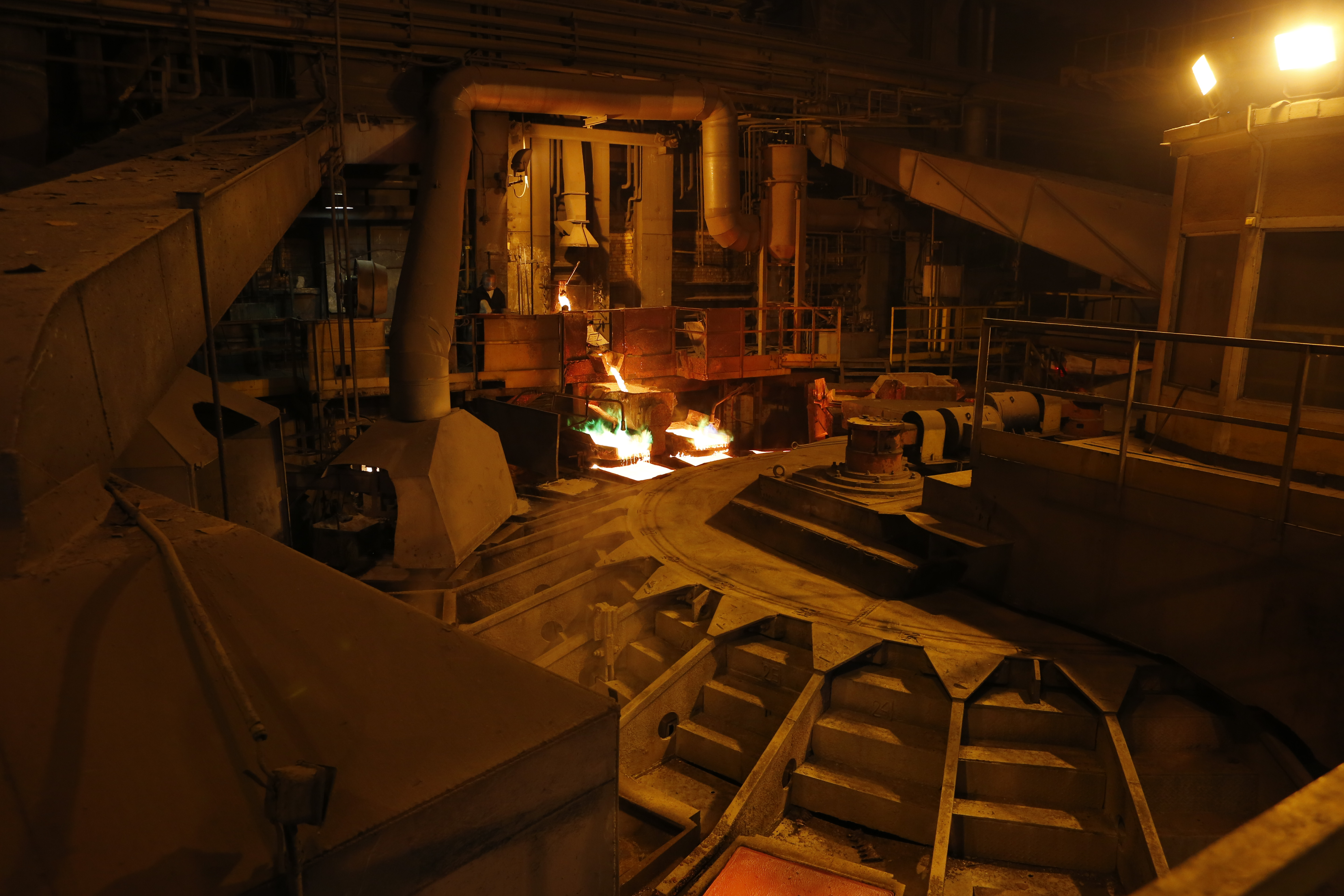 A casting wheel is a unit for pouring liquid metal with radial molds arranqement.